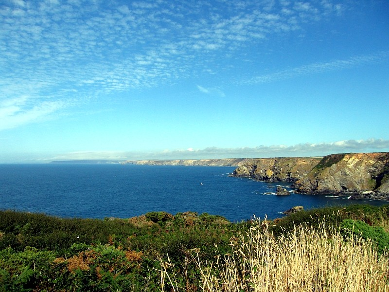 Navax Point - Cornwall - UK